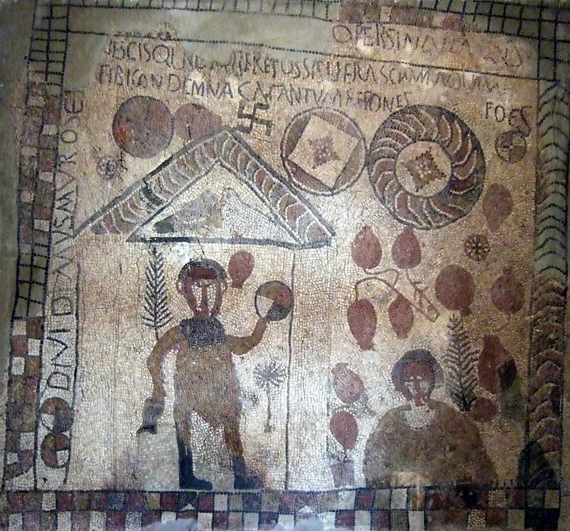 Floor pavement (5th c.). Roman villa in Estada (Huesca). Mosaic